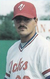 Professional baseball player Jeff Bronkey